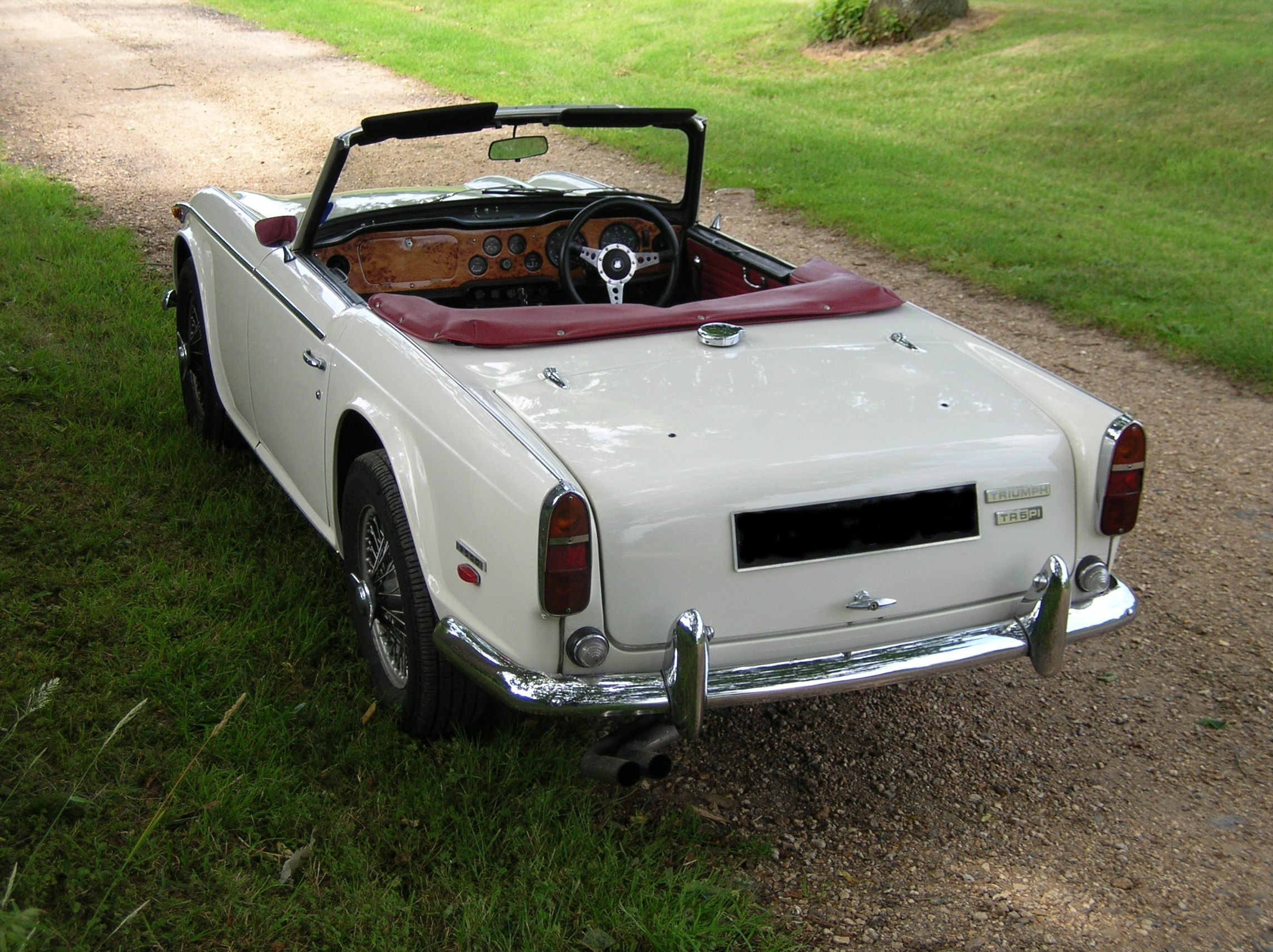 The rear of a 1969 Triumph TR5.